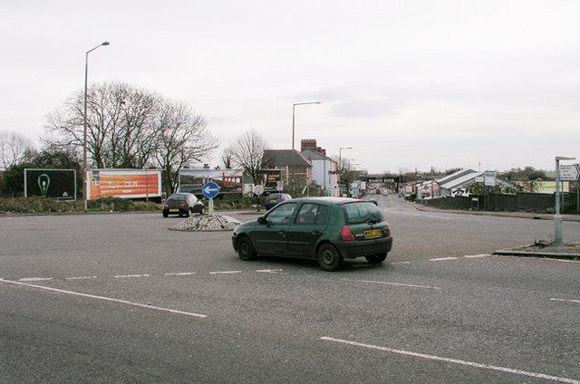 Ely Bridge Roundabout At the junction of Cowbridge Road and Western Ave (A48), Cardiff